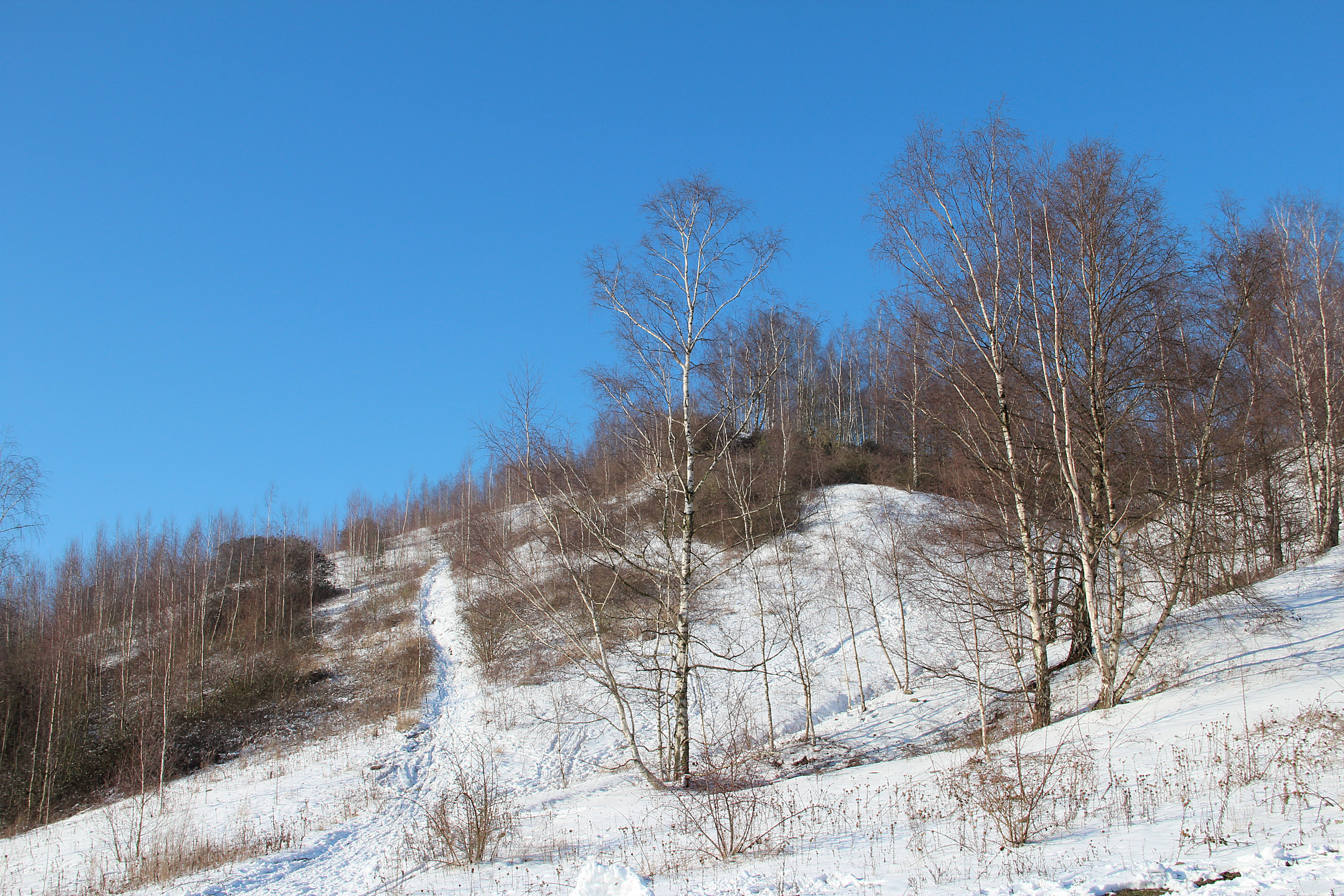 Cuesmes (Belgium), the southeast side of Mount Héribus.